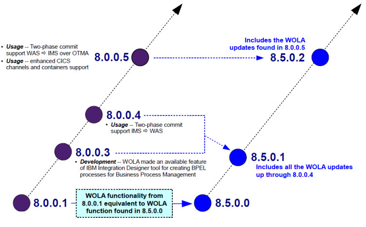 Large illustration of updates through 8.0.0.5 and 8.5.0.2